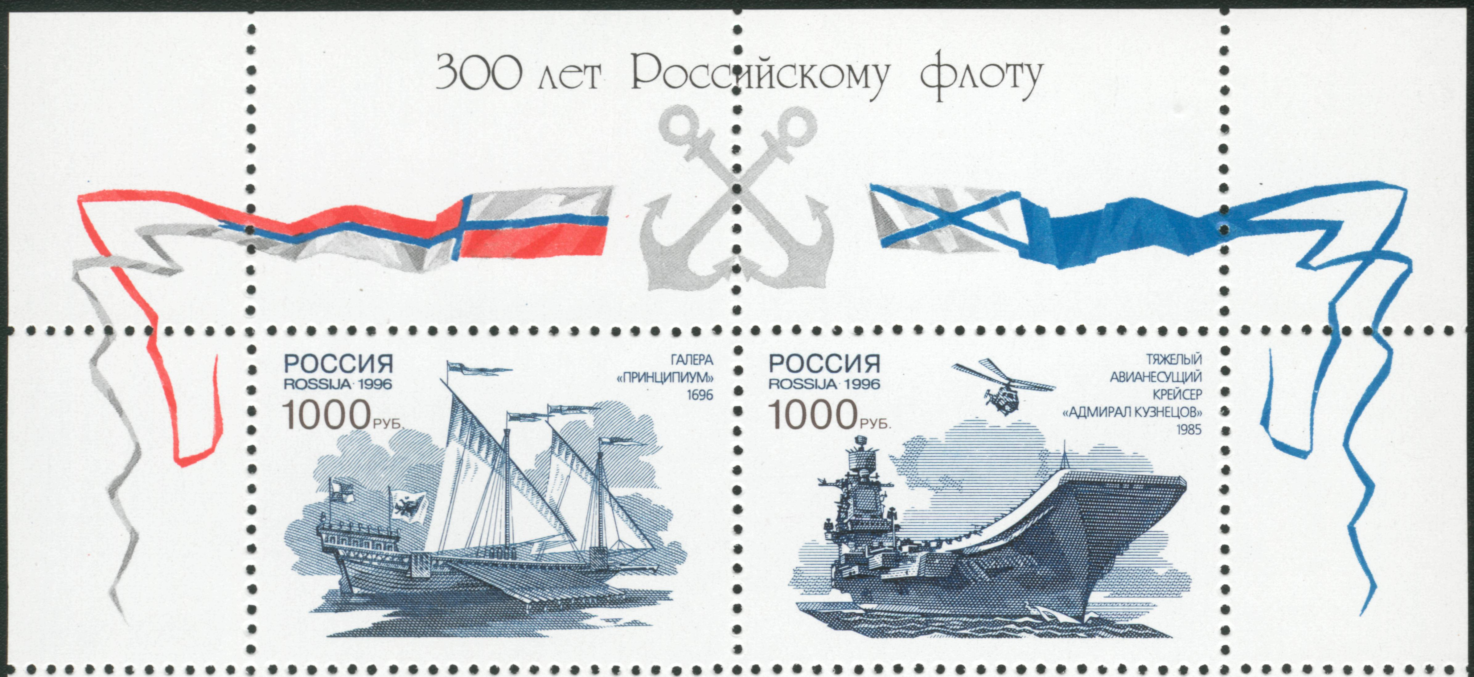 Se-tenant of 2 Russian stamps, 1996, 300th anniversary of the Russian Navy.